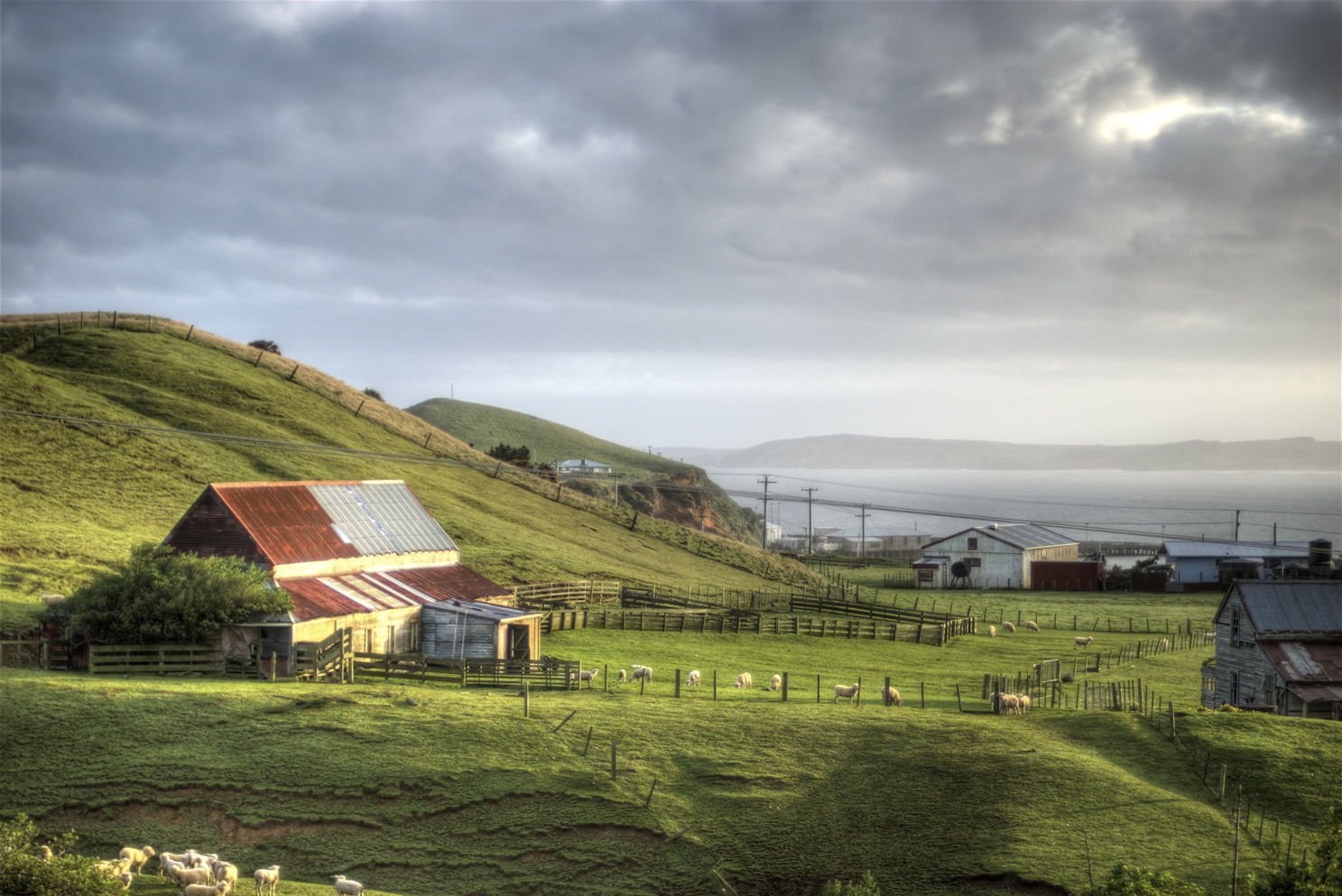 Morning view from Chatham Islands September 2007. Taken from coords -43.953094,-176.563759.